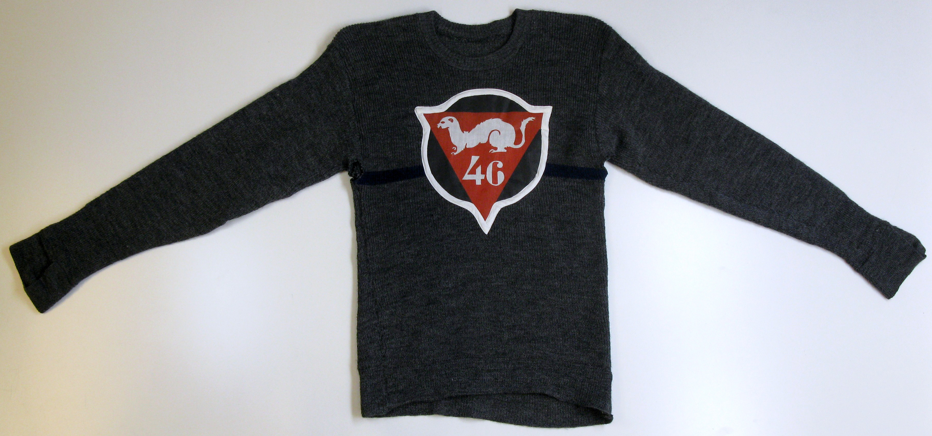 Ice Hockey team Kärpät, their first jersey from the end of 40s